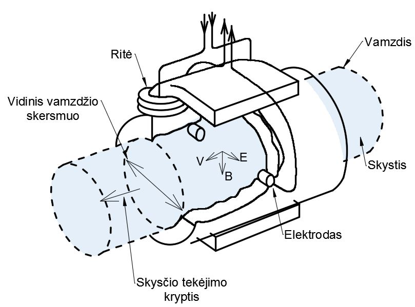 v – greitis; E – potencialų skirtumas; B – elektromagnetinė jėga